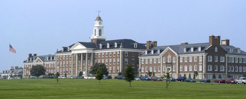 Main building of the Henry A. Wallace Beltsville Agricultural Research Center